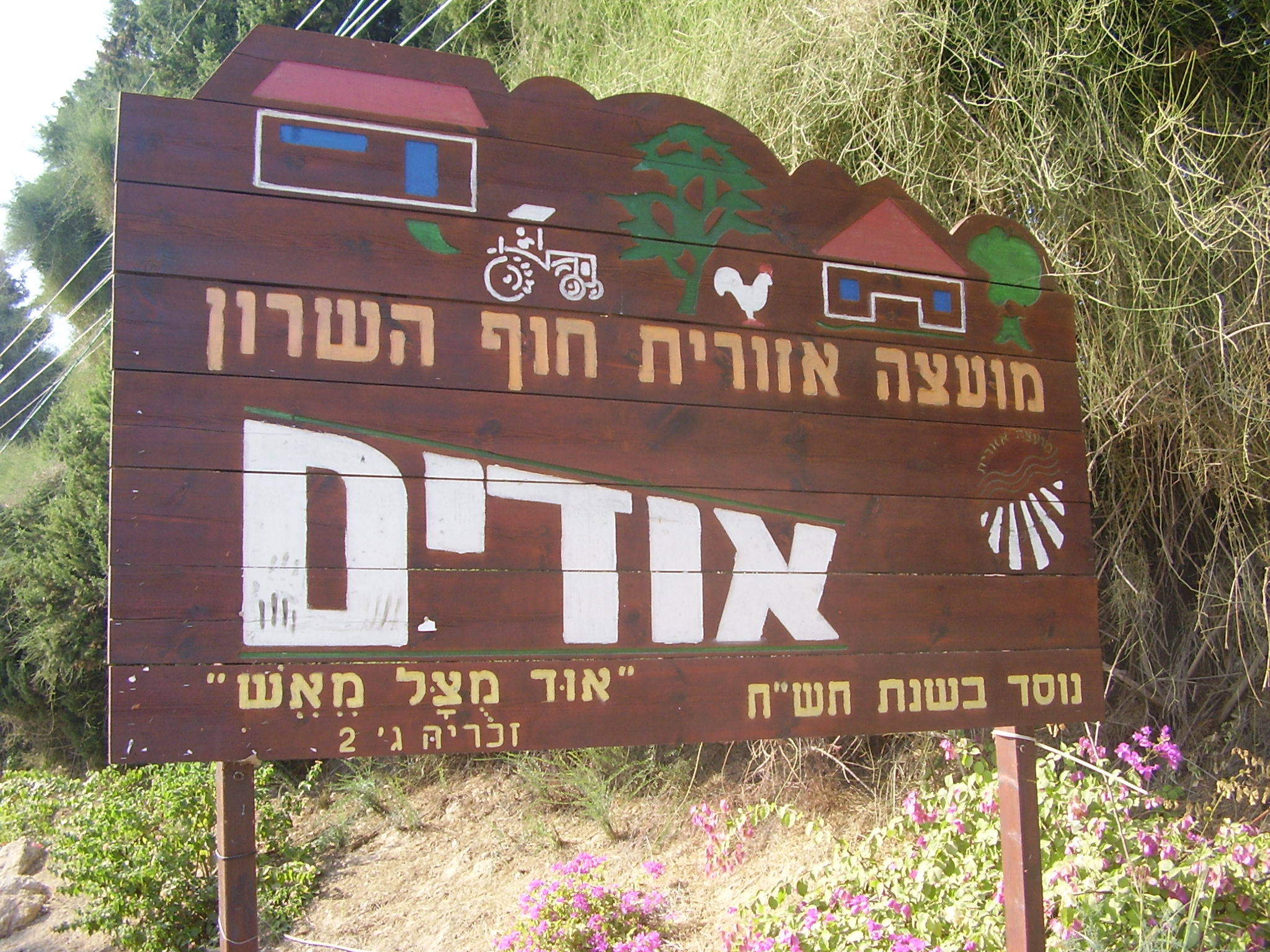 entrance to udim